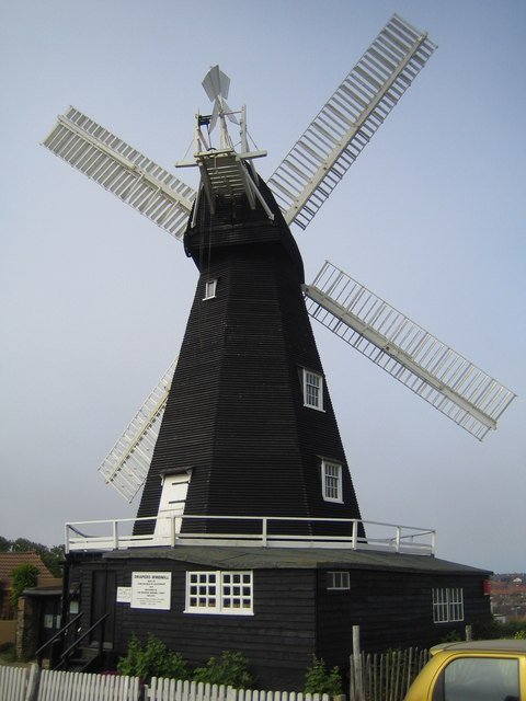 photograph of Draper's mill, Margate